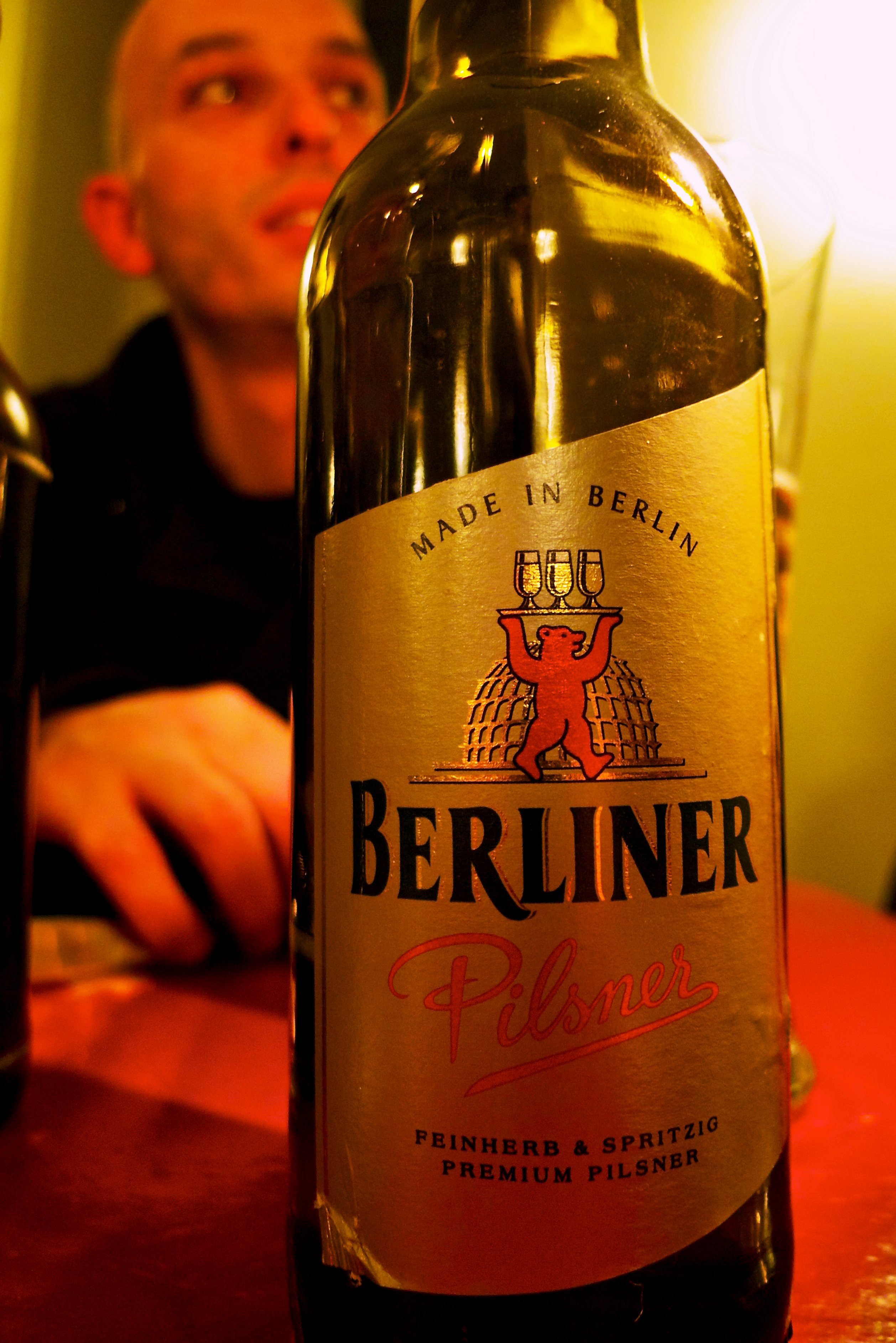 Recording Marc Morgan's album "Beaucoup Vite Loin" at LowSwing studio with Guy Sternberg assisted by Florian Von Keyserlingk, Berlin, january 2011. Marc Morgan line-up : Marc Wathieu : guitar, vocals. Jérôme Mardaga : guitars. Calo Marotta : bass. Jérôme Danthinne : drums. Guest : Daniel Offerman : Vocal on "The operator".